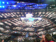 Personal photo from service I attended.